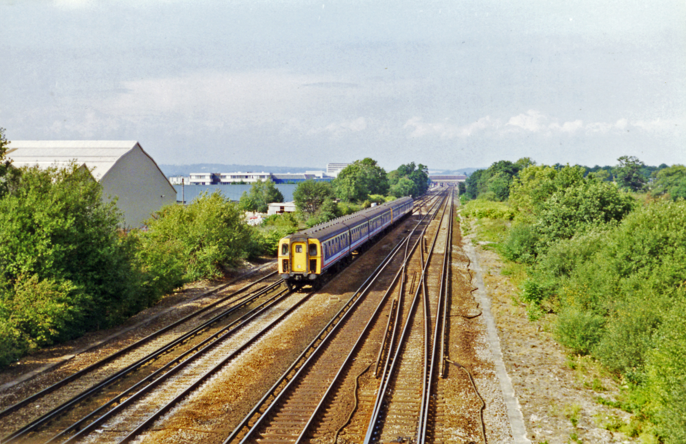 Site of original Gatwick Airport station, 1995. View northward, towards London: ex-LB&SCR London (Victoria/London Bridge) - Brighton etc. main line. The present Gatwick Airport station, opened 28/5/58, is just visible ahead. This is the site of 'Tinsley Green' station, opened in 9/35, becoming 'Gatwick Airport' in 6/36, while the precursor of the modern Gatwick Airport station was plain 'Gatwick', but became 'Gatwick Racecourse' 1946-58. An express for the Coast is on the Down Fast